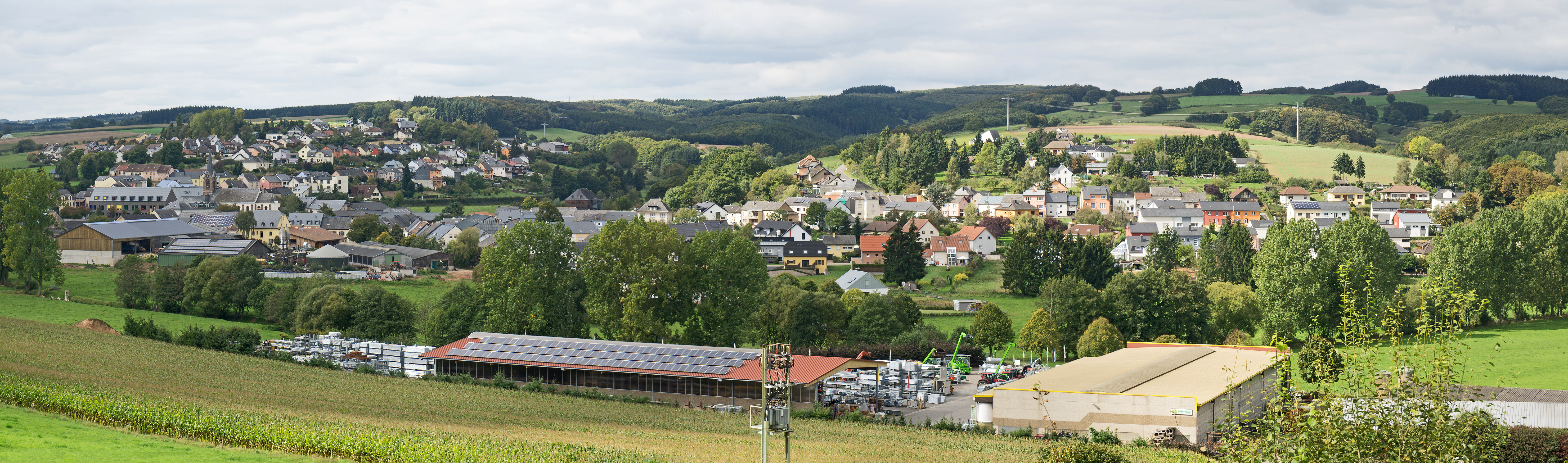 Niederfeulen as seen from the N15